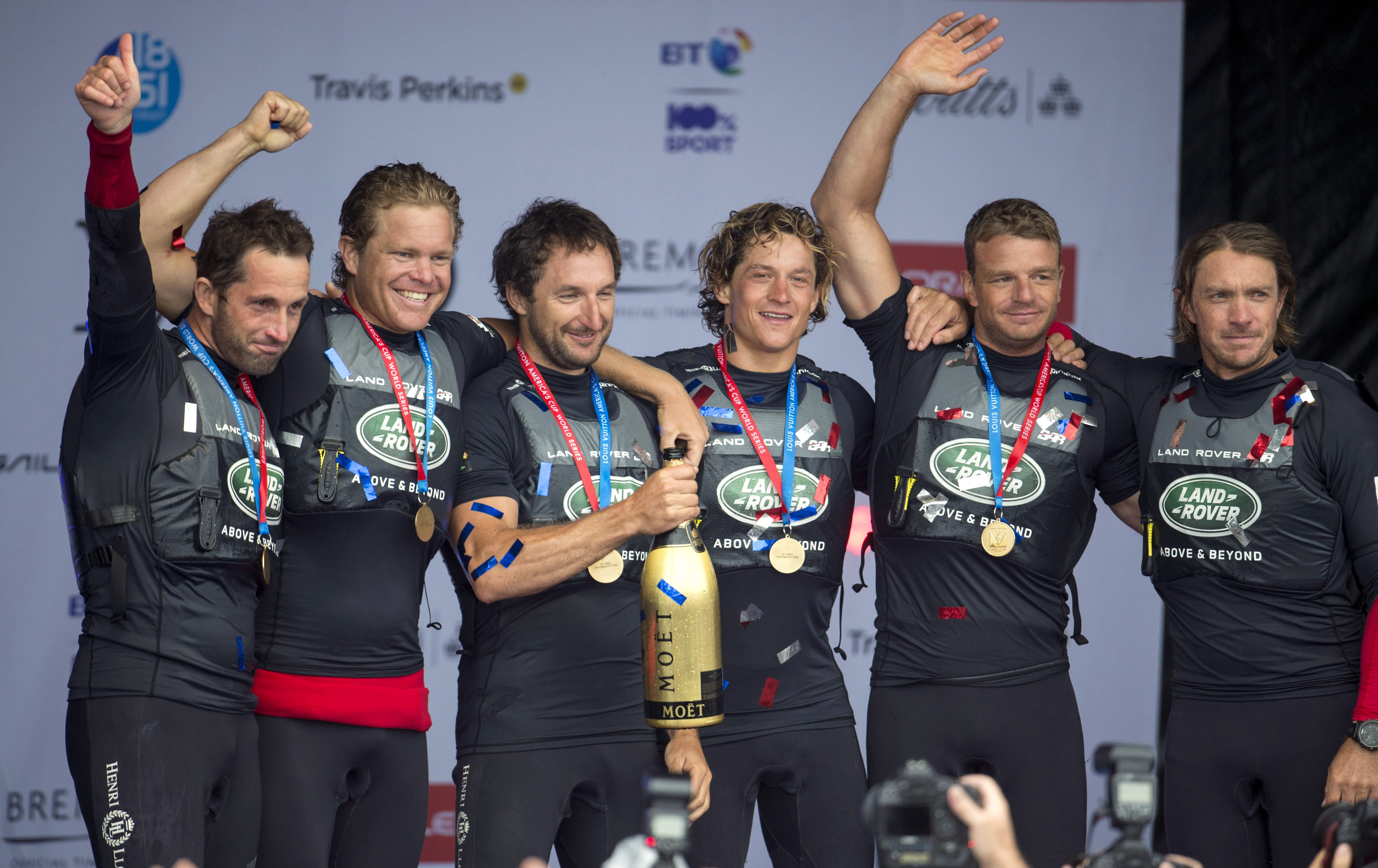 Original title: Louis Vuitton America's Cup World Series - Portsmouth: Day Three Original description: The 35th America's Cup Louis Vuitton World Series. July 24th: The Duke and Duchess of Cambridge present the winning team LandRover BAR skippered by Ben Ainslie with the trophy during prize giving . (Photo by Lloyd Images)